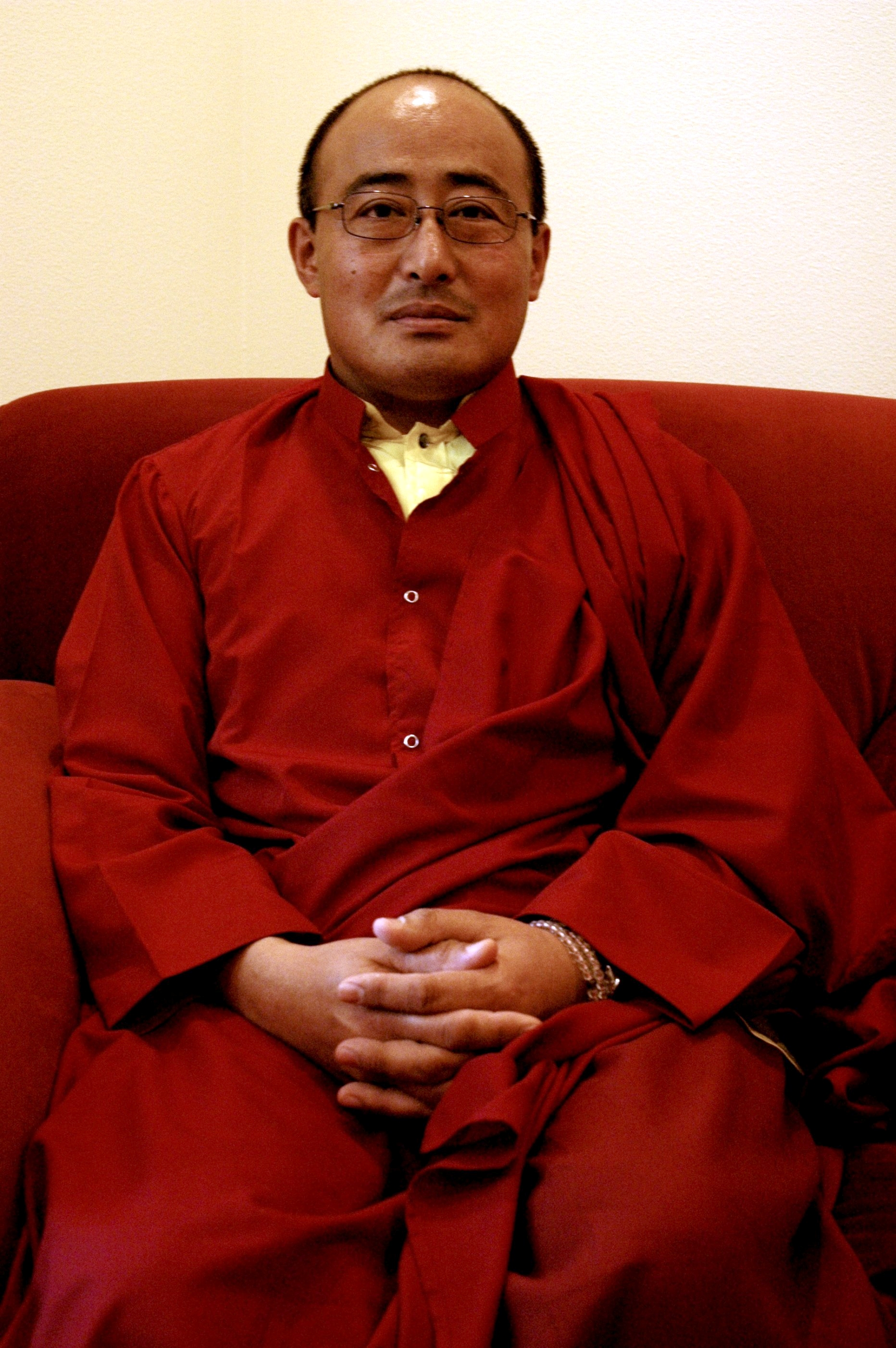 On the occation of his first teaching tour outside of Bhutan, Ven. Lhalung Sungtrul Rinpoche of Tamshing Bhutan at Nalanda West in Seattle, Washington, USA. "Ven. Lhalung Sungtrul Rinpoche is the 11th in a direct line of incarnations of the great Bhutanese Tertön (treasure revealer) Pema Lingpa. Sungtrul Rinpoche was recognized as the 11th incarnation of Pema Lingpa by H.H. Dudjom Rinpoche, H.H. Dilgo Khyentse Rinpoche and H.H. The 16th Karmapa in early 1969."